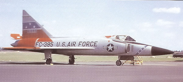 F-102 of the 14th Fighter Group, 1959